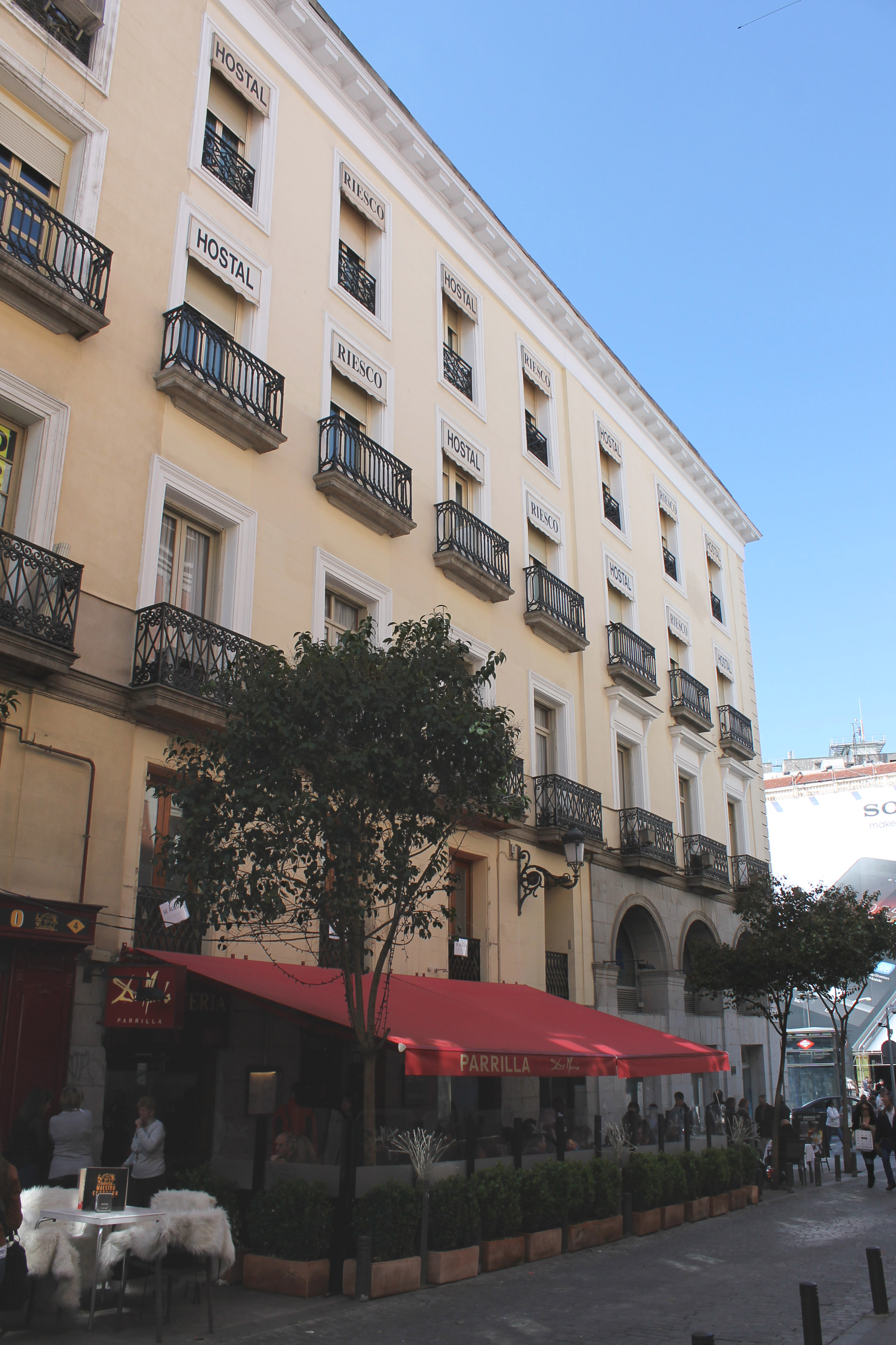 View from Calle del Correo (street) in Sol neighborhood in Madrid (Spain).